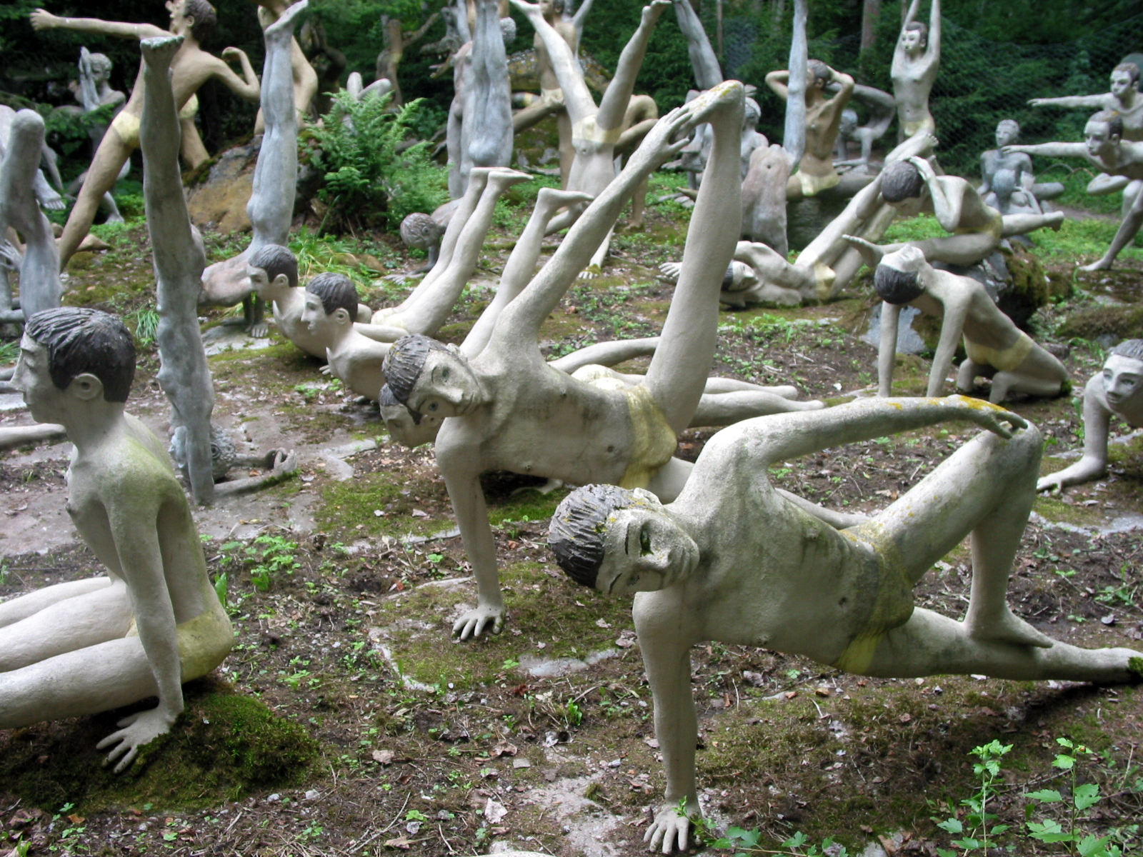 Yoga doing concrete sculptures by finnish artist Veijo Rönkkönen in Sculpture park, Parikkala, Finland.